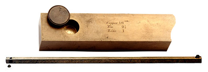 Bronze Yard No. 11 length standard, the official standard of length for the United states from 1855, when it replaced the Troughton Scale, until 1893, when the US adopted Metric standards. It was an exact copy of the British Imperial Standard Yard, one of a number of Imperial prototype yard length standards constructed by Great Britain in 1855 to replace the British Imperial Troy Yard prototype, which was destroyed in the 1834 Houses of Parliament fire. The bronze bar with square cross section was a "line standard"; when the bar is at 62° F the yard is defined by the distance between two fine lines ruled on gold "plugs" which were set into recesses in the ends of the bar to protect them. Protective caps (shown) fit in the holes. The reason for recessing the defining lines in holes in the bar is to locate them on the bar's "neutral plane", its axis of symmetry, where length error due to sag of the bar under its own weight is minimum. The bar is now in the NIST Museum, Bethesda, Maryland. Alterations to image: Composite of two separate images; a closeup image of the bar end was rotated, cropped, and pasted next to an image of the entire bar.